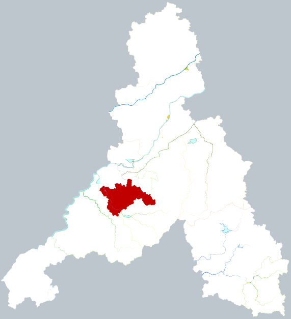 Location of Shizhong district in Jinan City, China